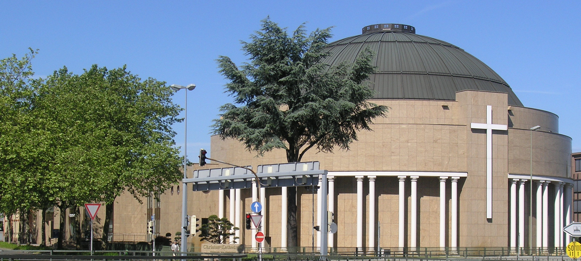 Christus-Kathedrale, the church of Missionswerk Karlsruhe, an independent pentecostal congregation